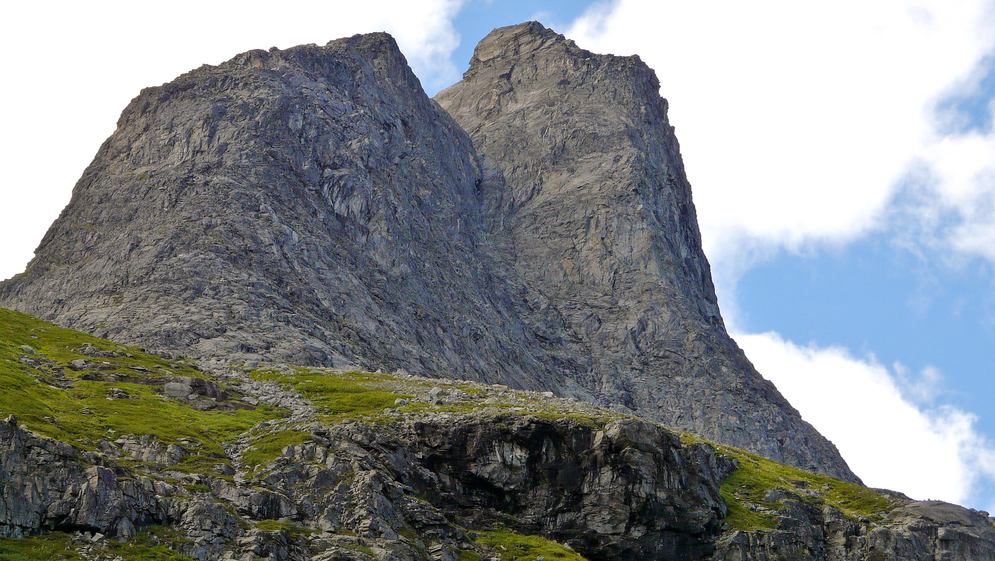 Bispen (1,462 m) near Trollstigen as seen from the southeast by the Riksvei 63 road in 2008 August.